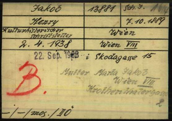 Registration card of Heinrich Eduard Jacob as a prisoner at Dachau Nazi Concentration Camp. “J” (top right corner) and “mos.” (bottom left) identify Jacob as a Jew. The red “B.” penciled on the left indicates Jacob's transfer to Buchenwald. The penciled note on bottom right is Jacob's mother's name and address.